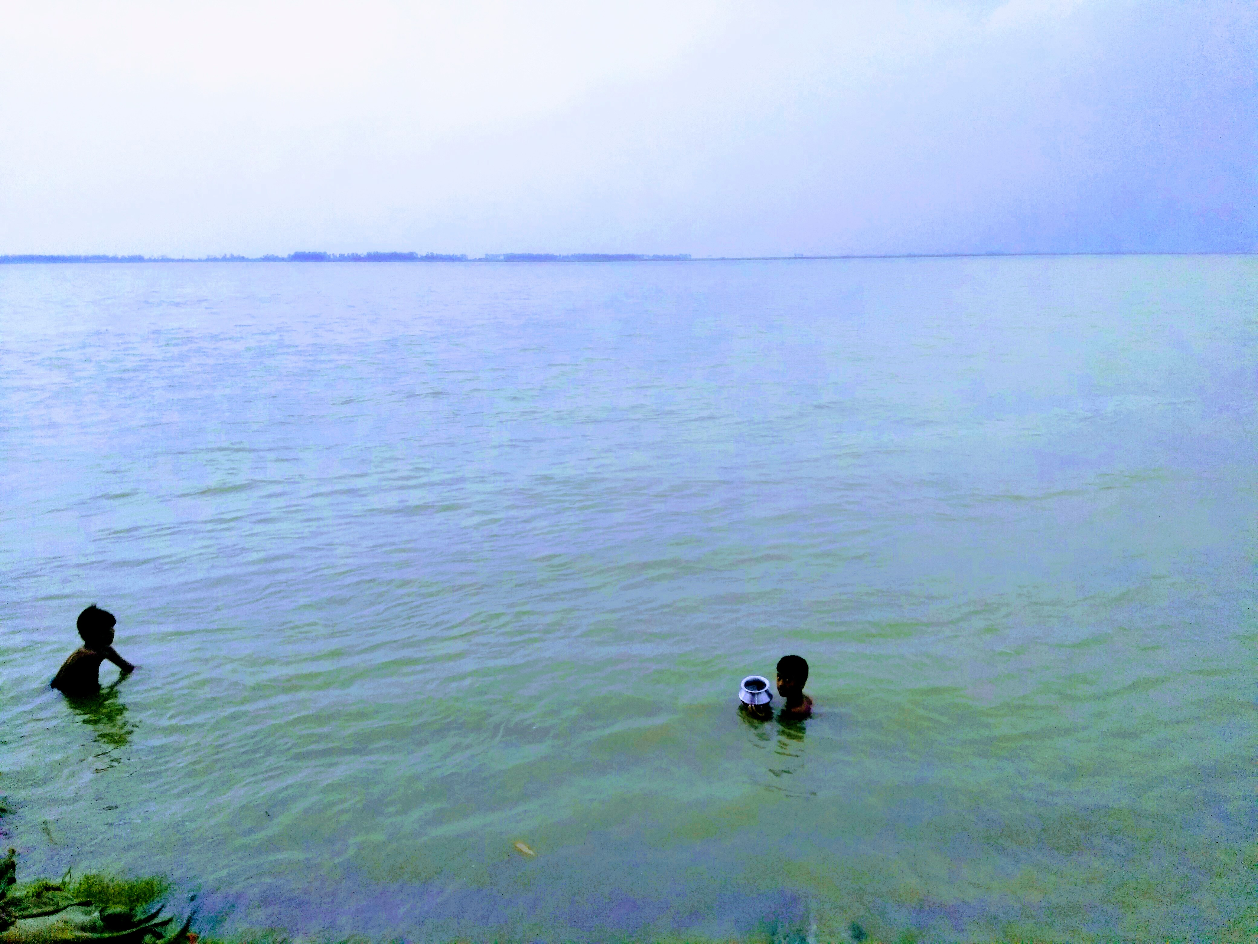 পড়ন্ত বিকেল এ দুই শিশু মাছ ধরছে